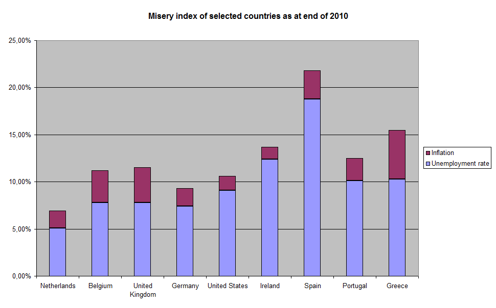 Misery index of selected countries as at end of 2010. Source: national statistical offices/Eurostat.